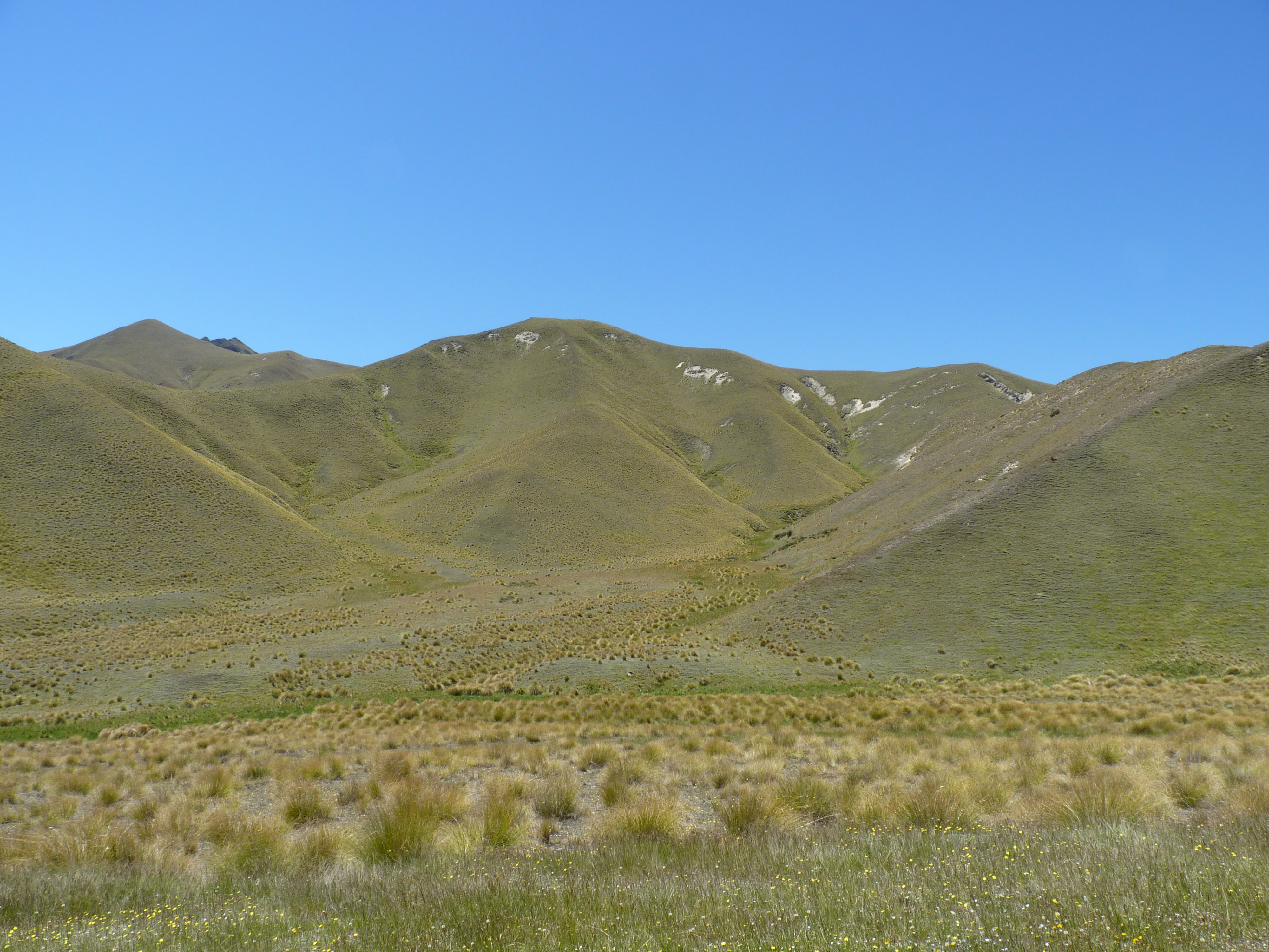 Lindis Pass, New Zealand